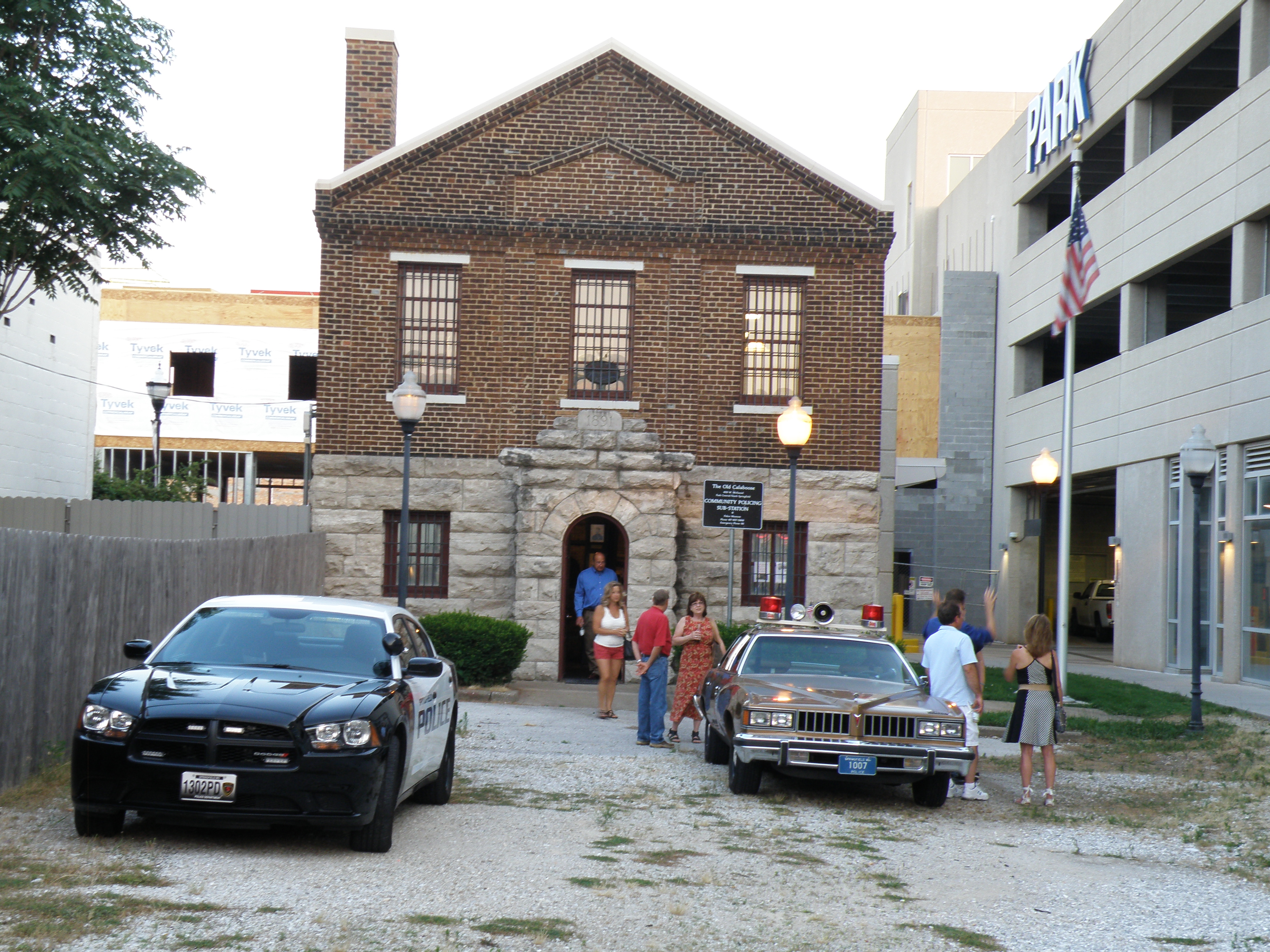 Old Calaboose